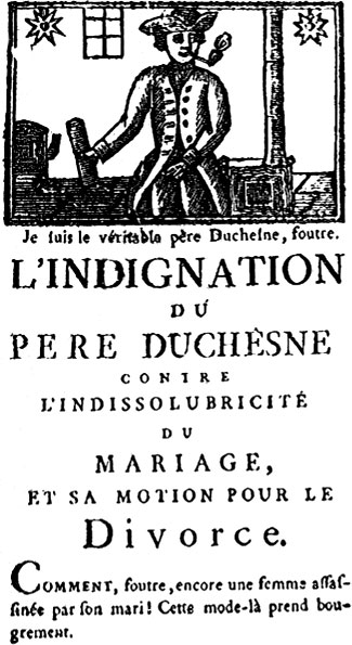 Eighteenth-century cover from a Père Duchesne broadside. Cover of issue no. 25 of Hébert's Le Père Duchesne--Against the "Indissolubricity" [sic] of Marriage and His Motion for Divorce.